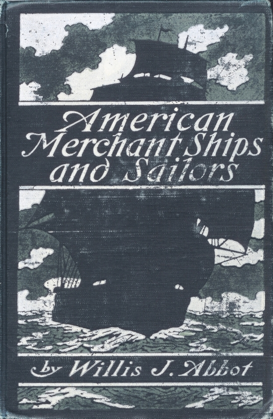 Front cover of American Merchant Ships and Sailors by Willis J. Abbot